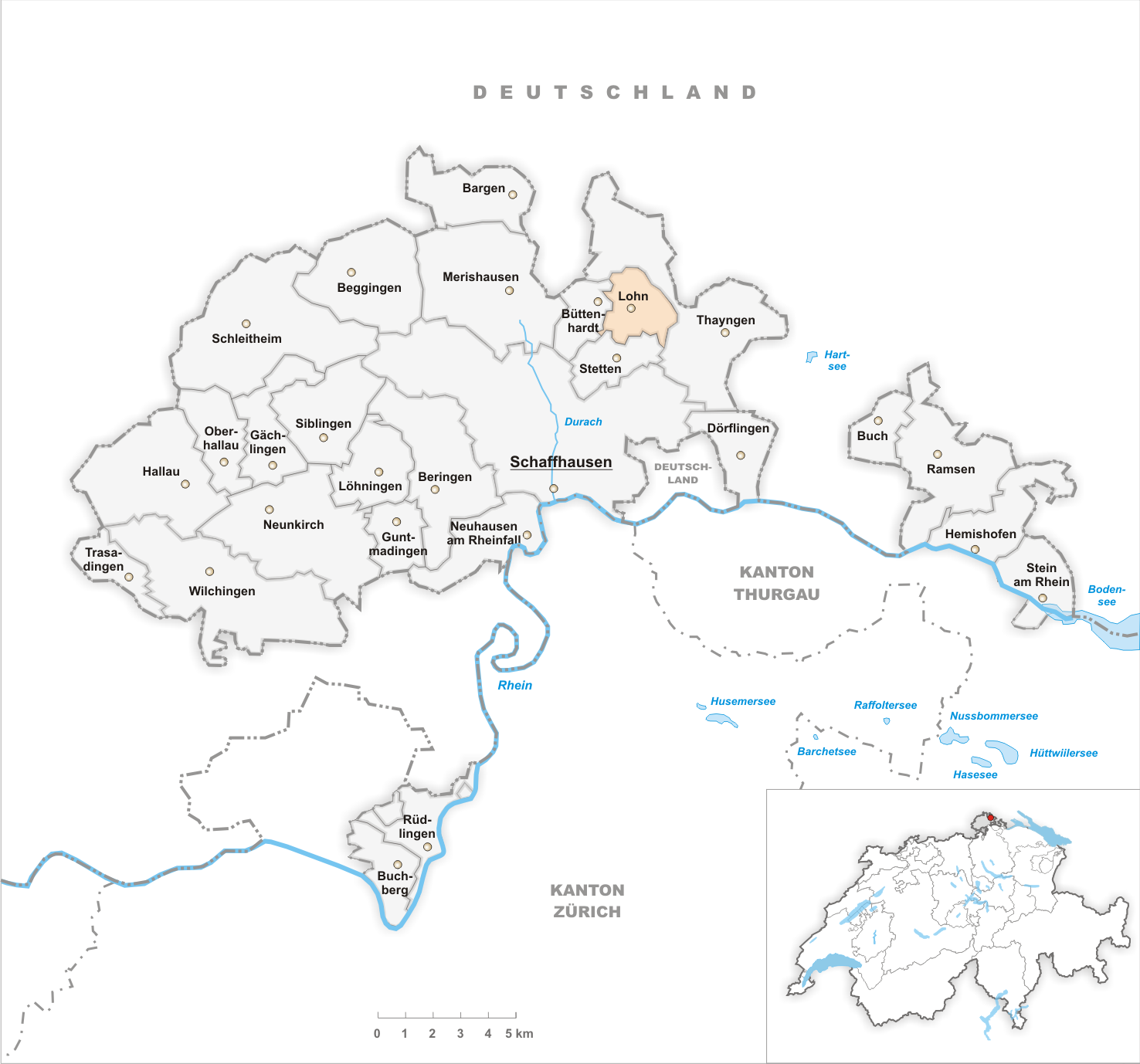 Municipality Lohn